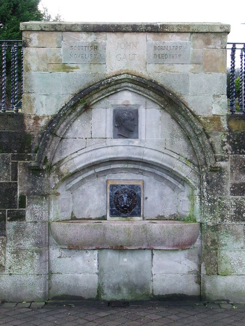 John Galt memorial fountain. In memory of local novelist John Galt, 1779-1839. On Greenock Esplanade, at the bottom of Rosneath Street. See also 652186.